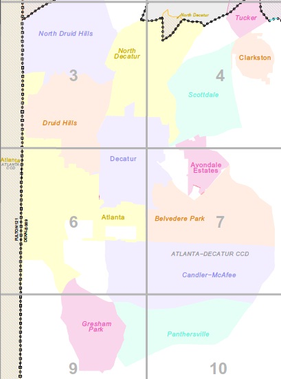 CDPs in central-west DeKalb county bordering eastern Atlanta and Decatur